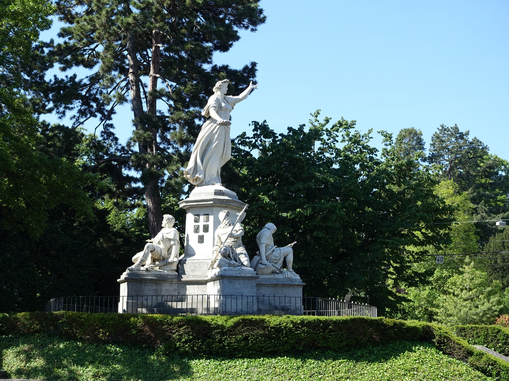 Das Krieger Denkmal aus Marmor erinnert an die Niederlage der eidg. Krieger am 26. August 1444 in der Schlacht von St. Jakob an der Birs. In dieser blutigen Auseinandersetzung starben 1300 Krieger der Eidgenossenschaft und 2000 Krieger des franz. Heeres. Einweihung 1872, Restauriert 2010